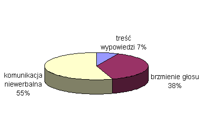 piechart illustrating A. Mehrabian's 7-38-55 rule - with detailed description